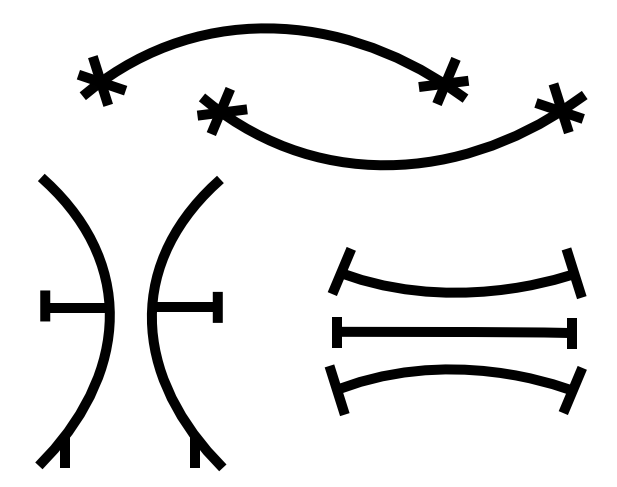 Three Nsibidi letters from Eastern Nigeria